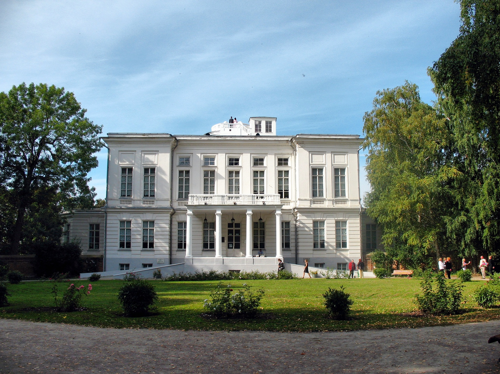 Bogoroditsk, Palace of the Bobrinsky family